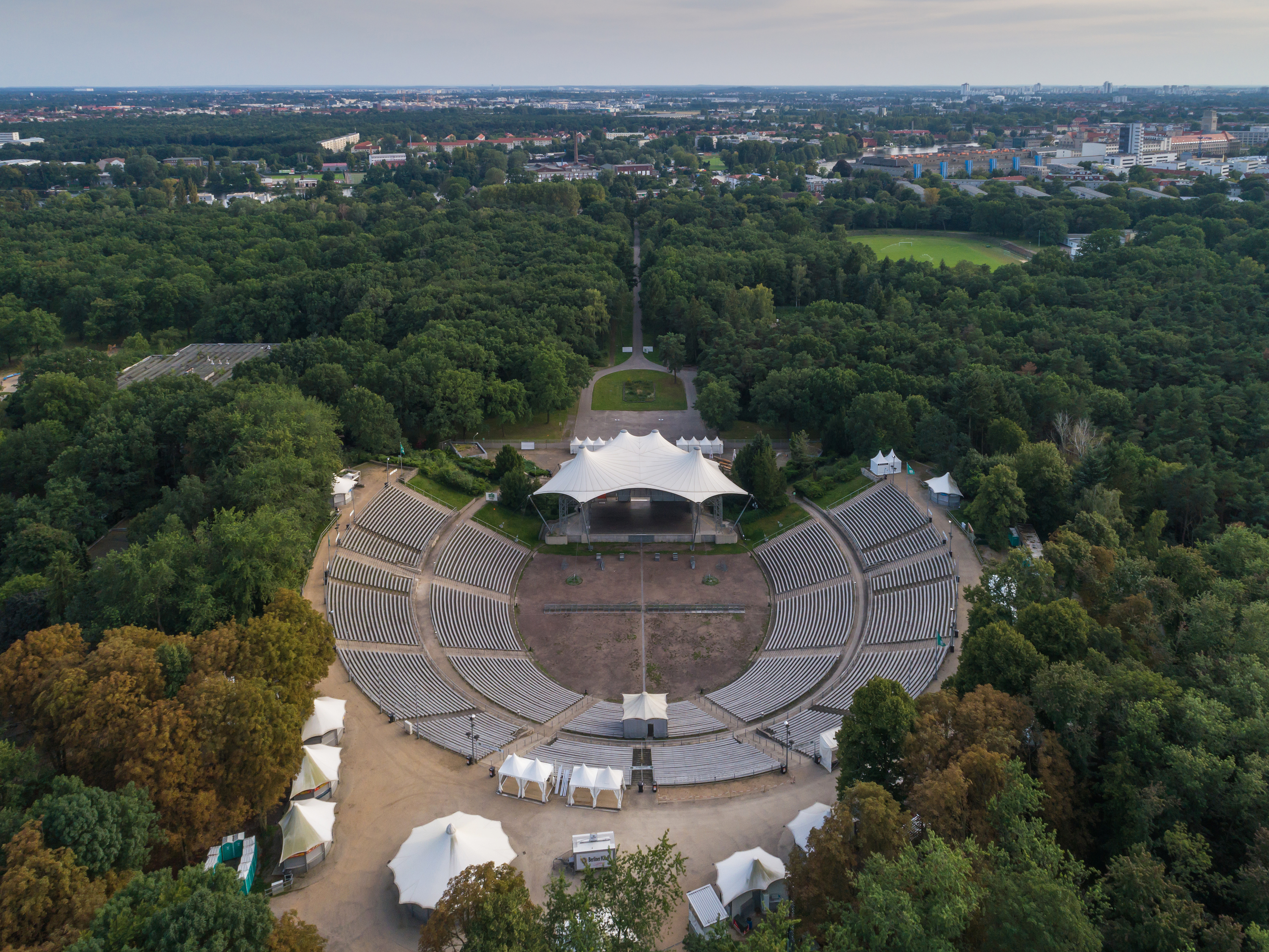 Wuhlheide park (aerial photo) in Berlin (Germany)